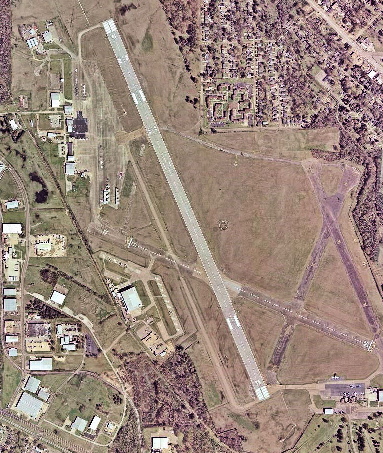 Aerial image of Hawkins Field, Jackson, Mississippi